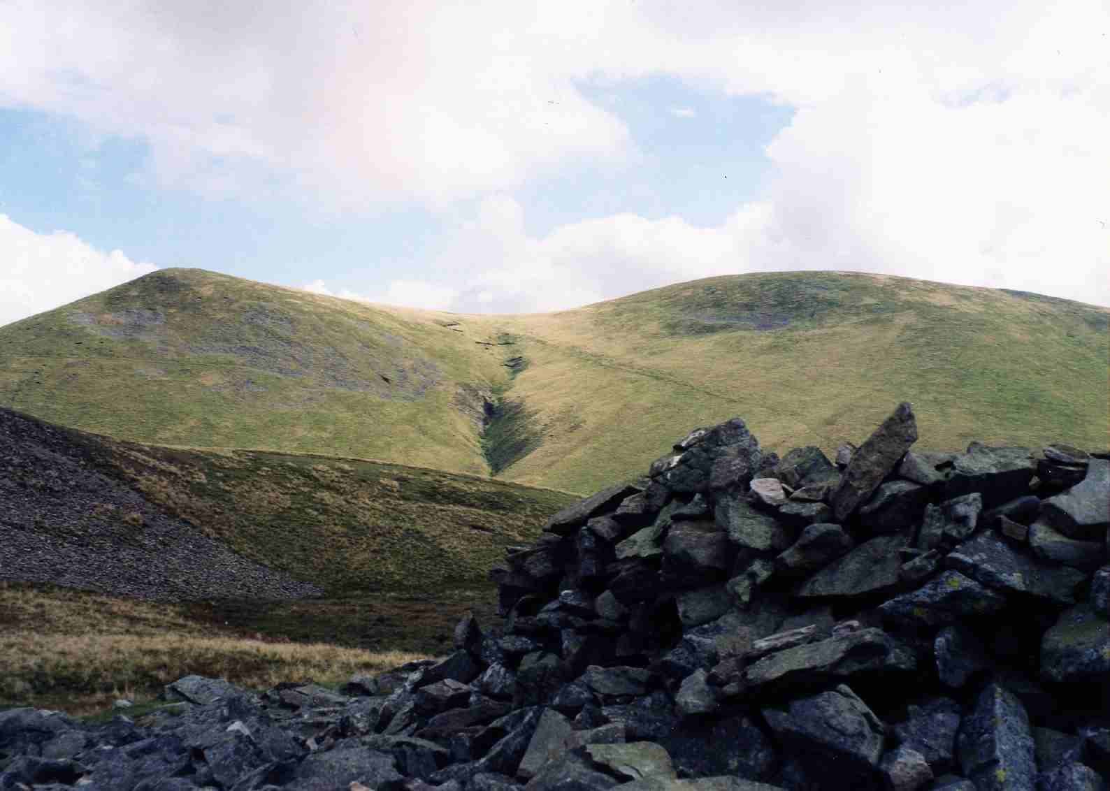 Great Sca Fell (right) and Little Sca Fell (left) seen from Meal Fell. Personal photograph taken by Mick Knapton